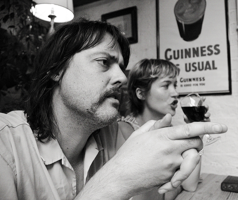 Soon to be famous author